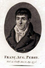 François Auguste Péron. Stipple engraving print; plate mark 13 x 8.7 cm Pictorial Collection S8408